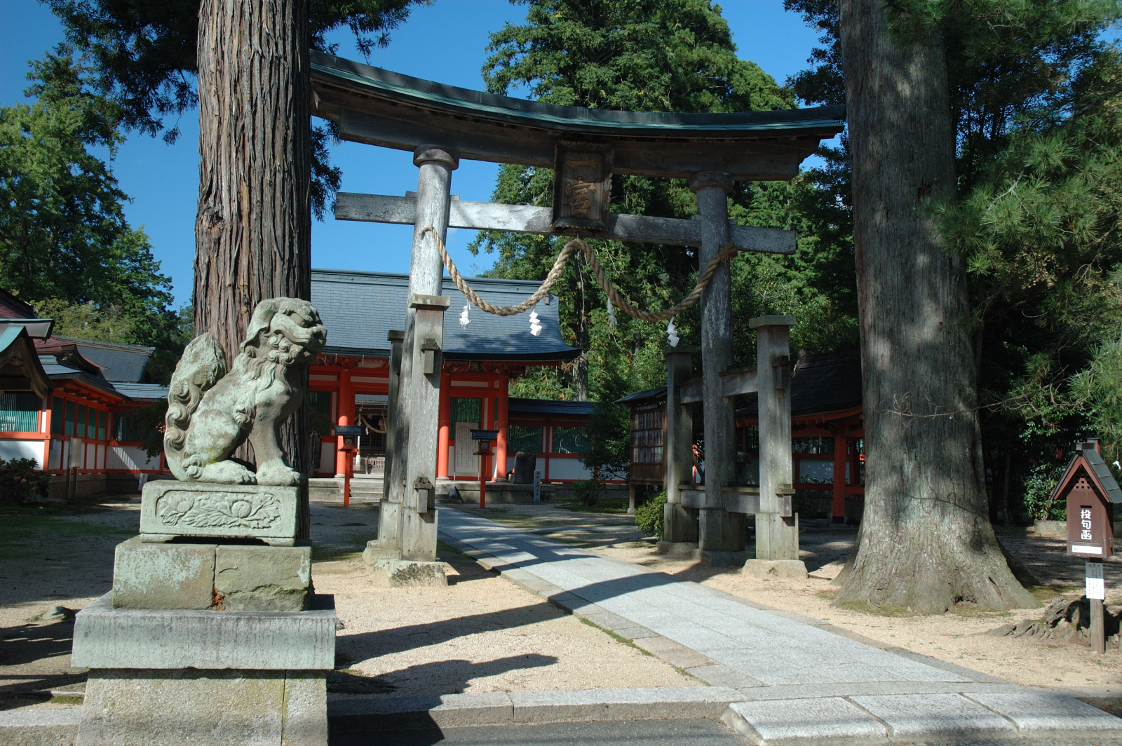 the second Torii